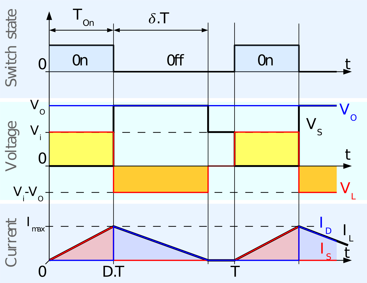 Cyril BUTTAY Waveforms of the current and voltage in a buck converter operating in discontinuous mode. Although I made this figure using Inkscape, I uploaded a png version because it contains a greek letter that is not properly displayed when I upload the svg version (please let me know if there is a way to do it).